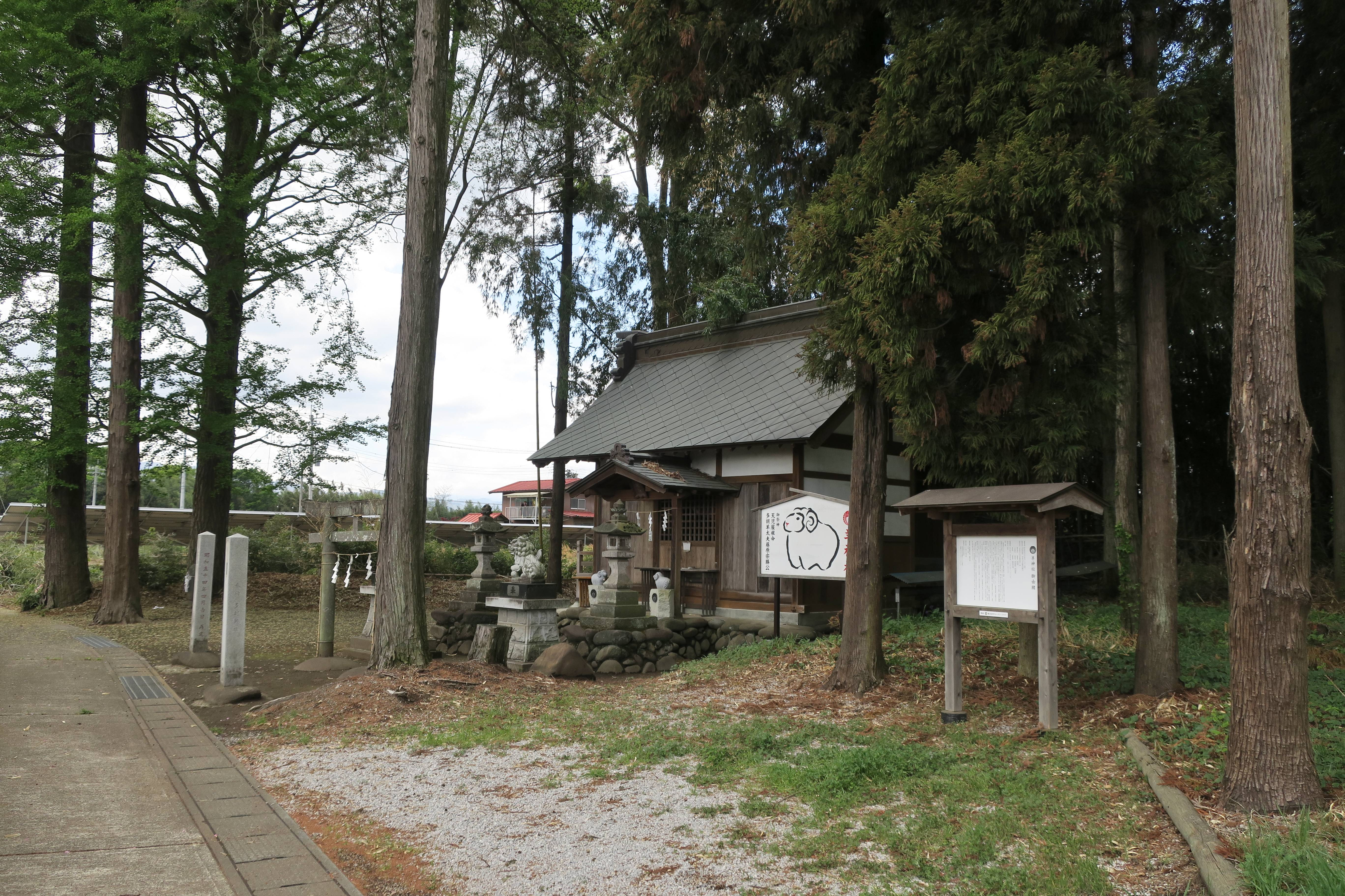 Hitsuji-jinja (Annaka, Gunma).